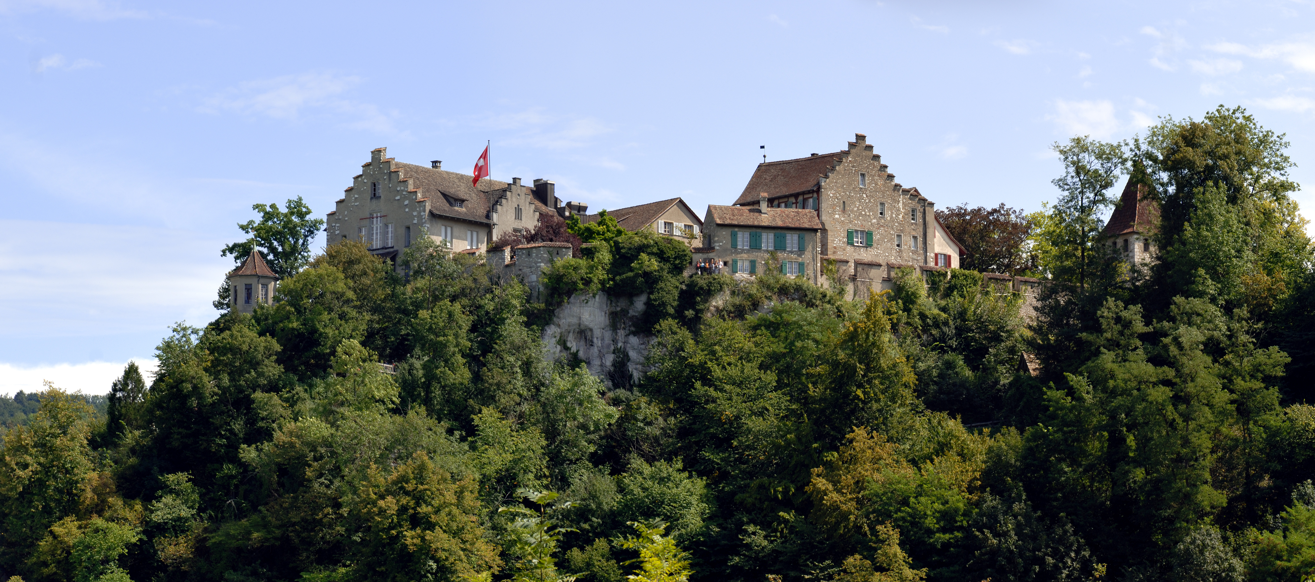 This image shows the castle Laufen near Schaffhausen, Switzerland. The image is a two segment panoramic image.